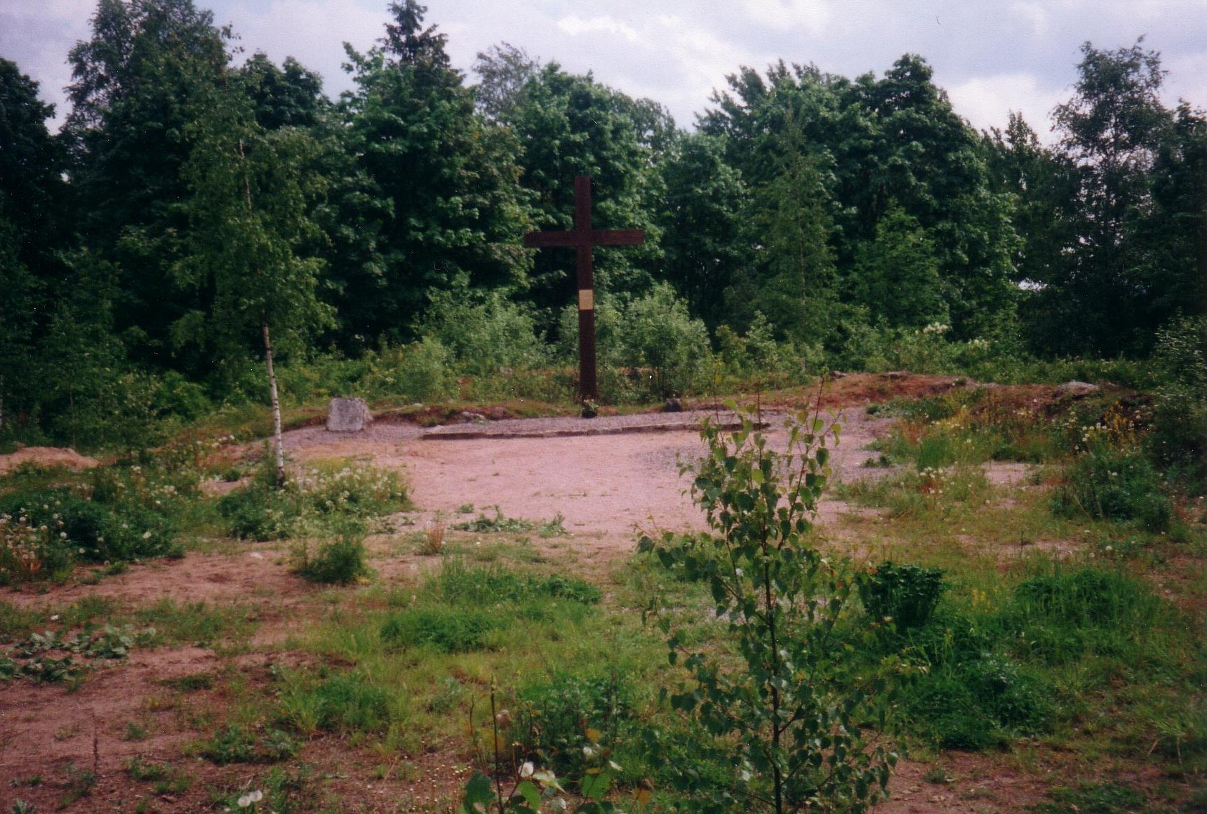 The location of the Muolaa (lutheran) church in the Finnish Karelia ceded to the Soviet Union in 1944. Built 1849-1852, destoyed 1939. Photo taken by Kyzyl in summer 2001.